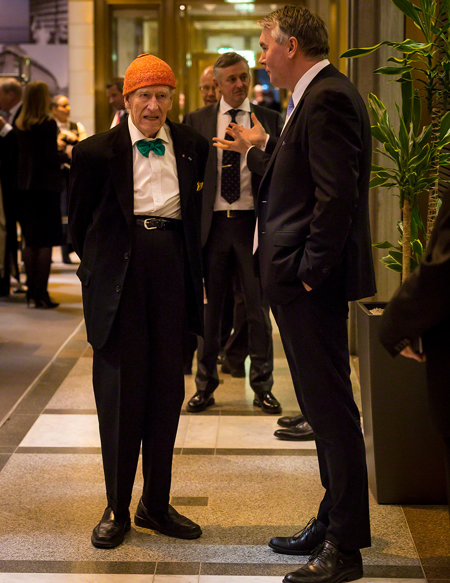 Olav Thon and Trond Helleland at Governor Øystein Olsen's annual address in February 2016